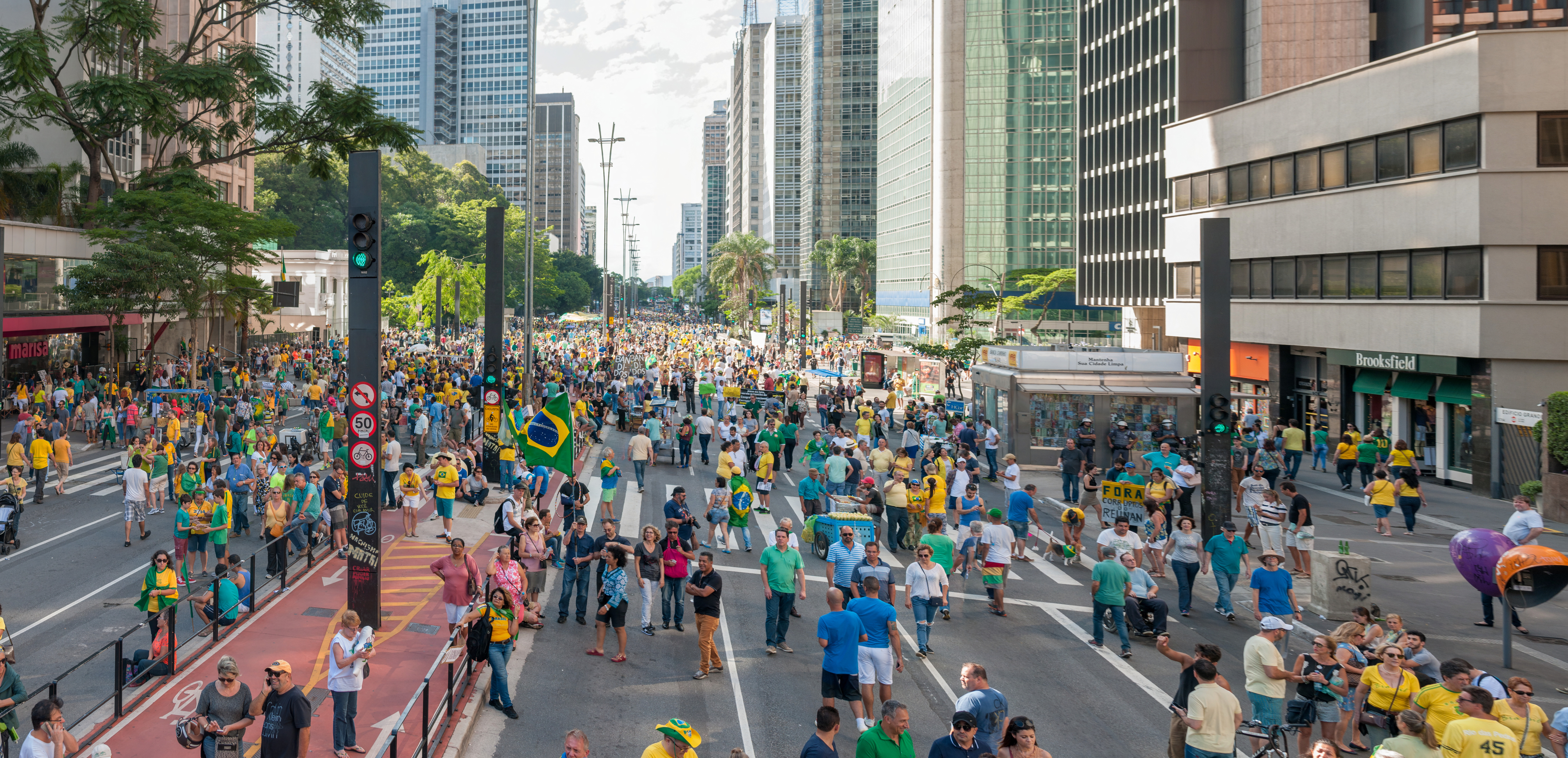 Demonstration supporting the carwash operation (lavajato) in São Paulo 4 december 2016